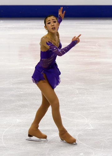 Skate Canada 2008; Fumie Suguri; FP